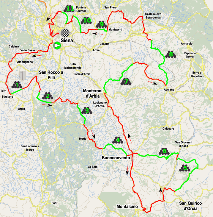 Map of the Strade Bianche 2018. Note that the place of the start is not precise to avoid superposition with the arrival road.